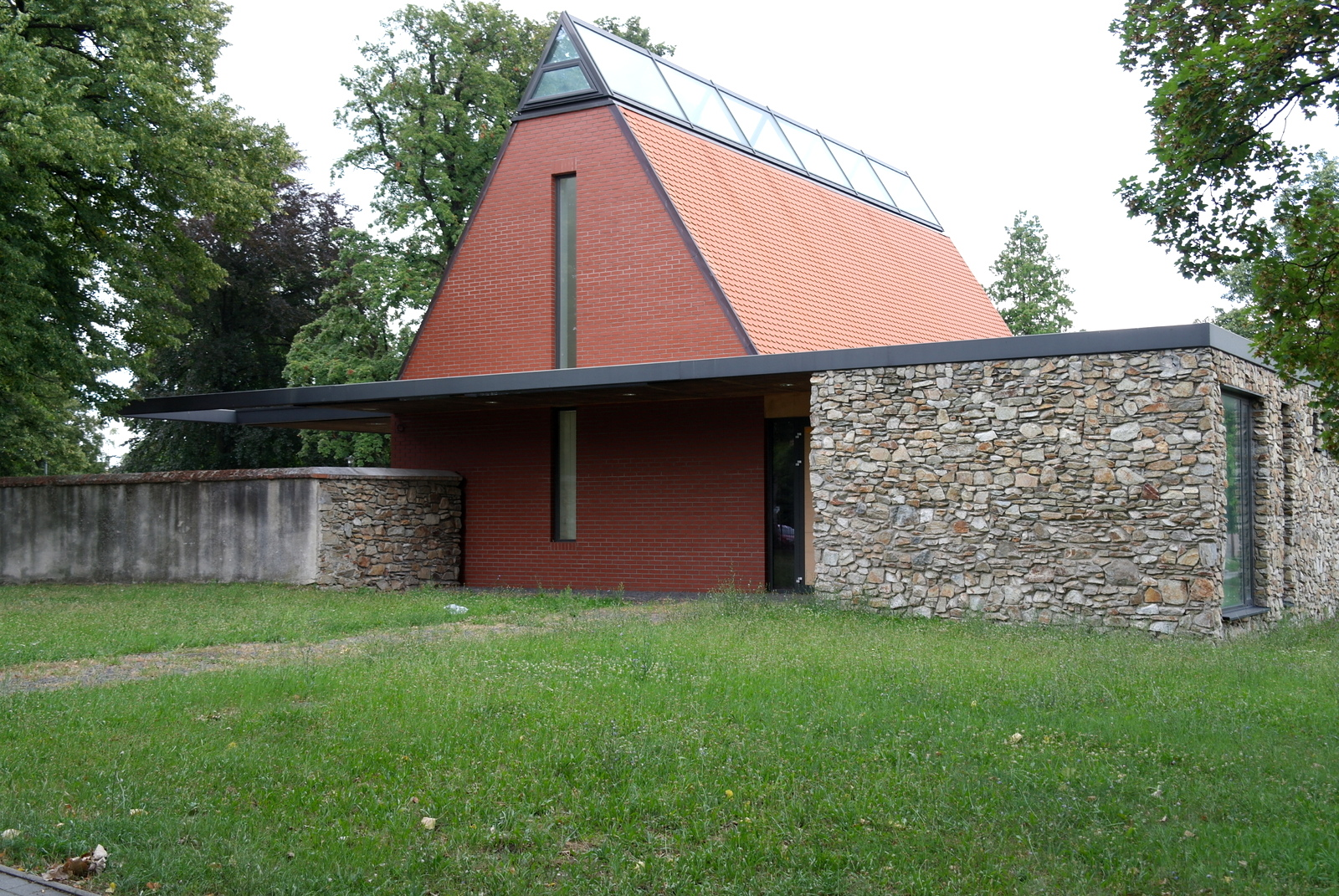 New house of mourning built in 2013, cemetery Dolná 67. Modra, Slovakia